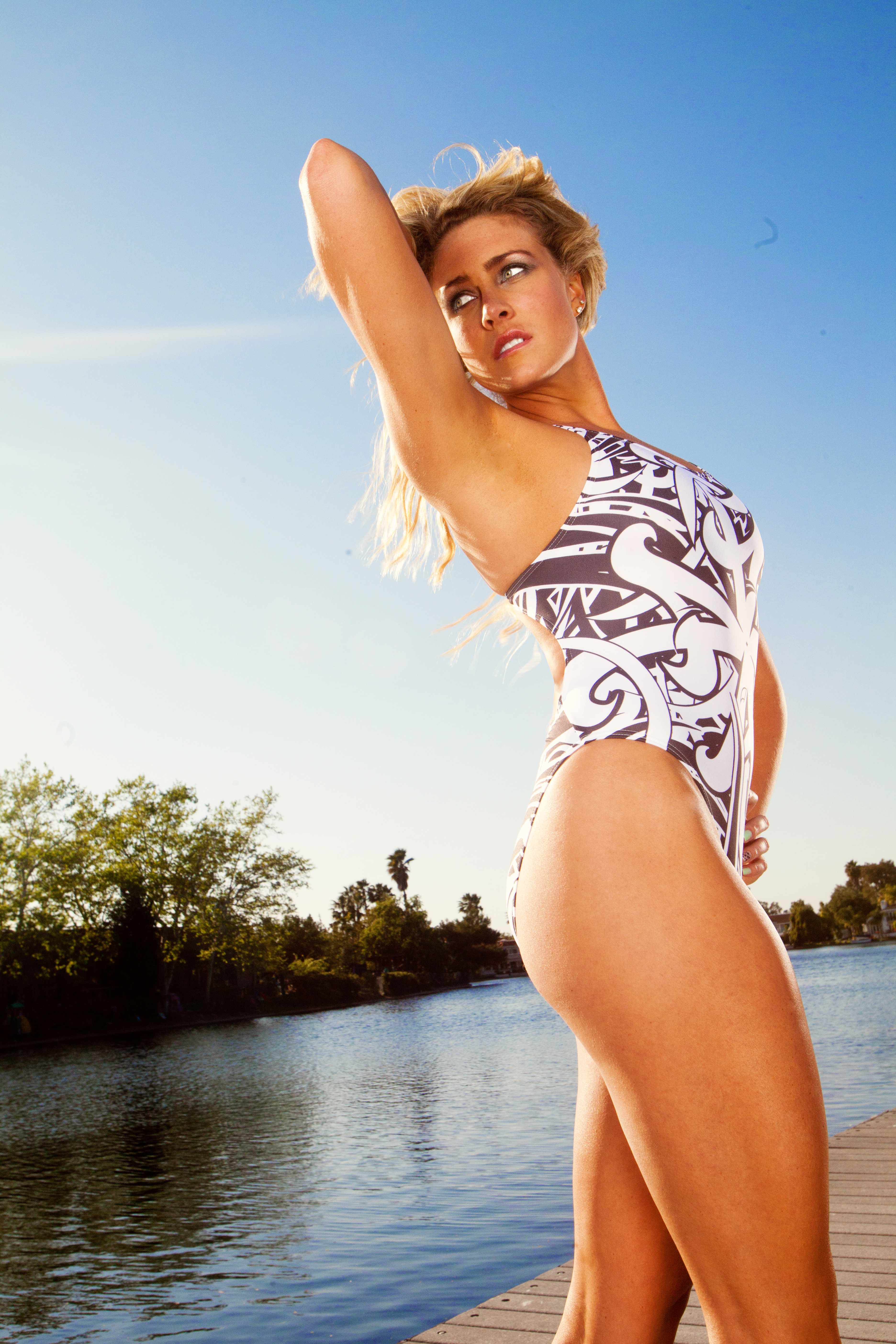 American Olympic swimmer Kaitlin Sandeno